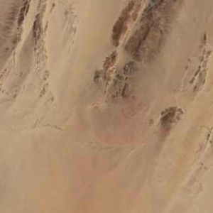 Landsat image centered on Kamil crater in southwestern Egypt. The image width is approximately 9 km, but the crater itself is only approximately 50 m wide. The ray system of the crater is visible. Brightness and contrast enhanced. LC08 L1TP 179045 20180822 20180829 01 T1 is the Landsat image number.